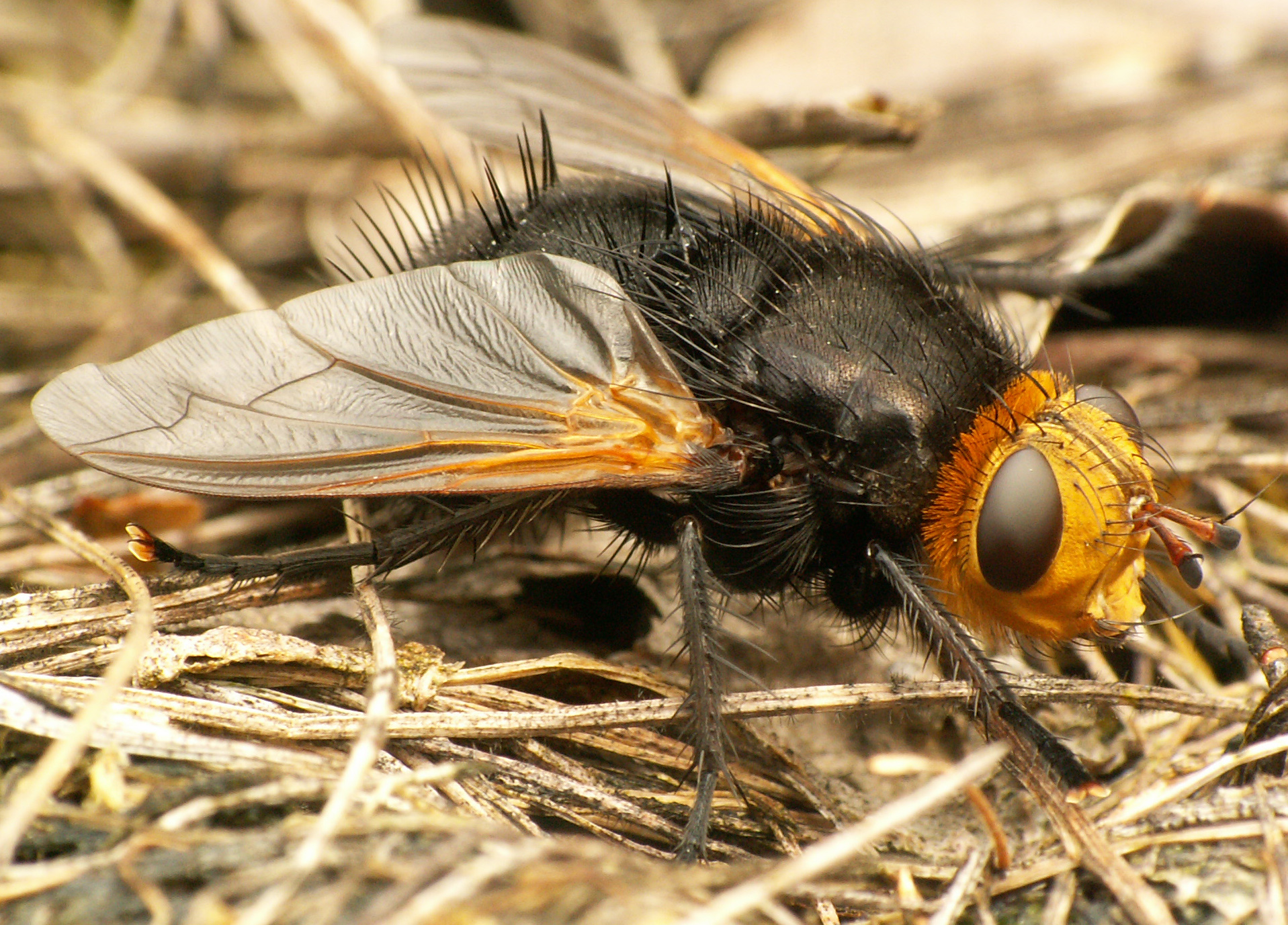 Tachina grossa on heathland, Veluwe, The Netherlands